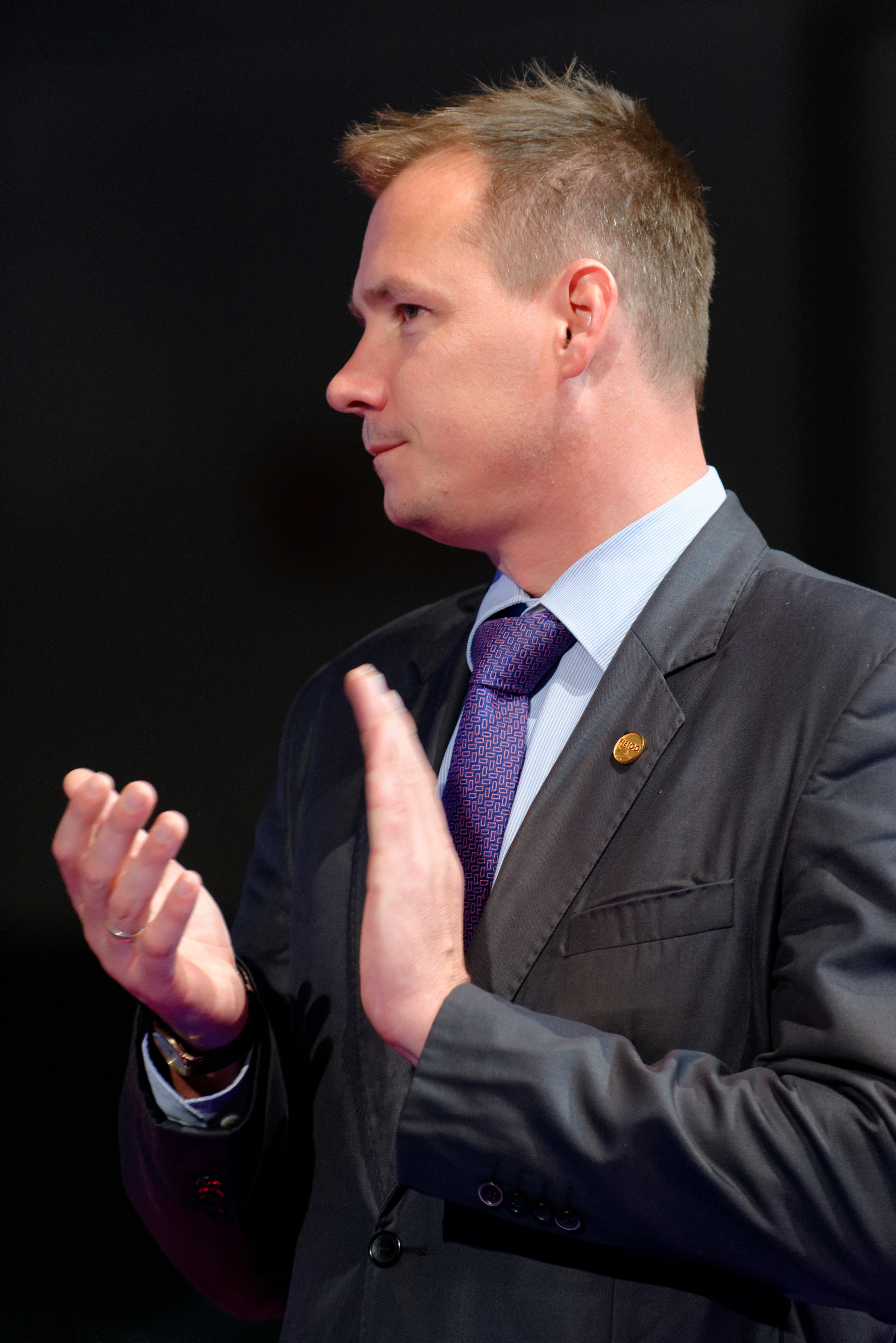 Krisztián Kulcsár, vice-president of the Hungarian Fencing Federation, takes part in the victory ceremony of the men's team foil event in the 2013 World Fencing Championships 2013 at Syma Hall in Budapest, 12 August 2013.